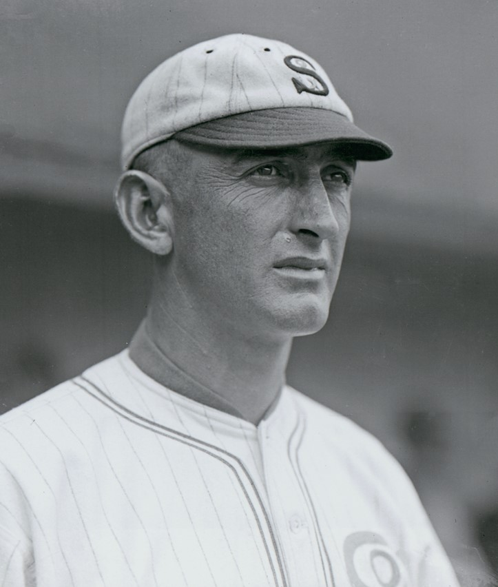 Baseball player, "Shoeless" Joe Jackson, White Sox, standing outdoors[1915 - 1920].